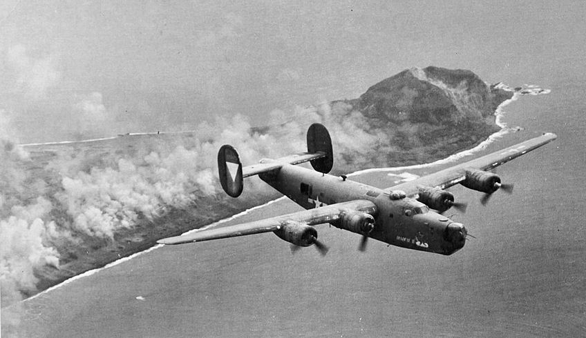 B-24J-45-CO Liberator s/n 42-73425 Named "Deadeye II" 392nd Bombardment Squadron, 30th Bombardment Group, 7th Air Force Flying over Iwo Jima, 6 March 1945